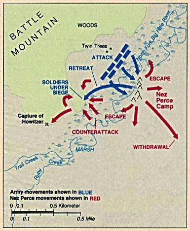 Map of the 1877 Battle of the Big Hole.